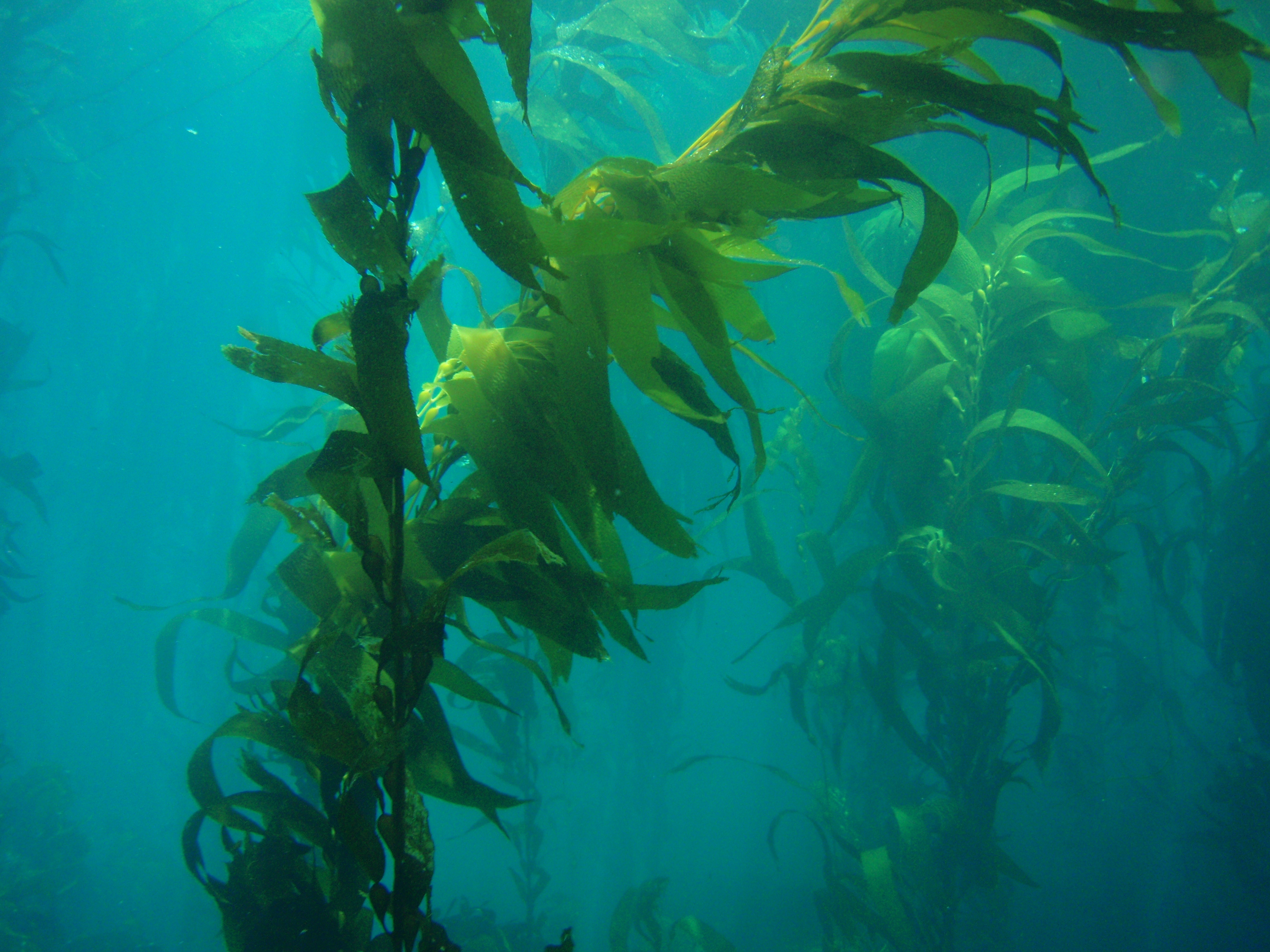 Giant kelp (Macrocystis pyrifera). California, Channel Islands NMS.